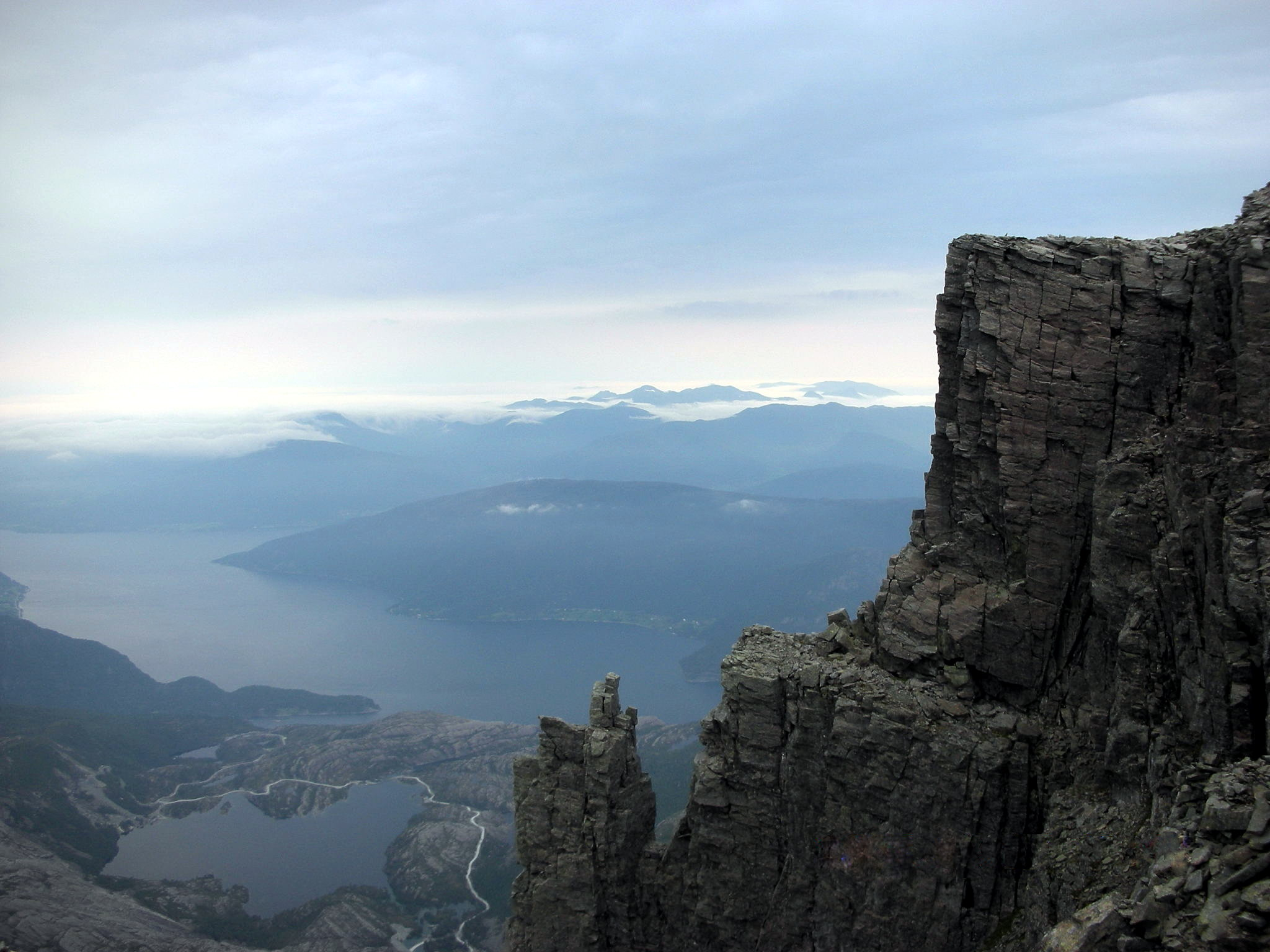 The high cliff on the west side of the mountain Gjegnen, in the municipality of Bremanger, Norway. This cliff is about 1100 metres long. It is called "Galleriet". The cliff is from the west side of Gjegnen to Bjørndalsvatnet.